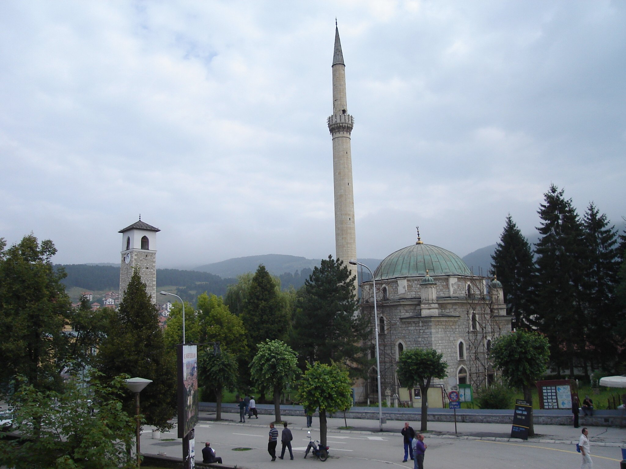 Plevlja in Montenegro